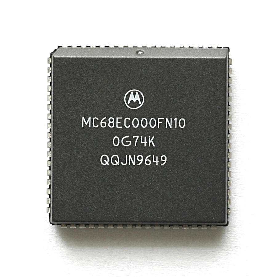 CPU Motorola 68EC000 PLCC